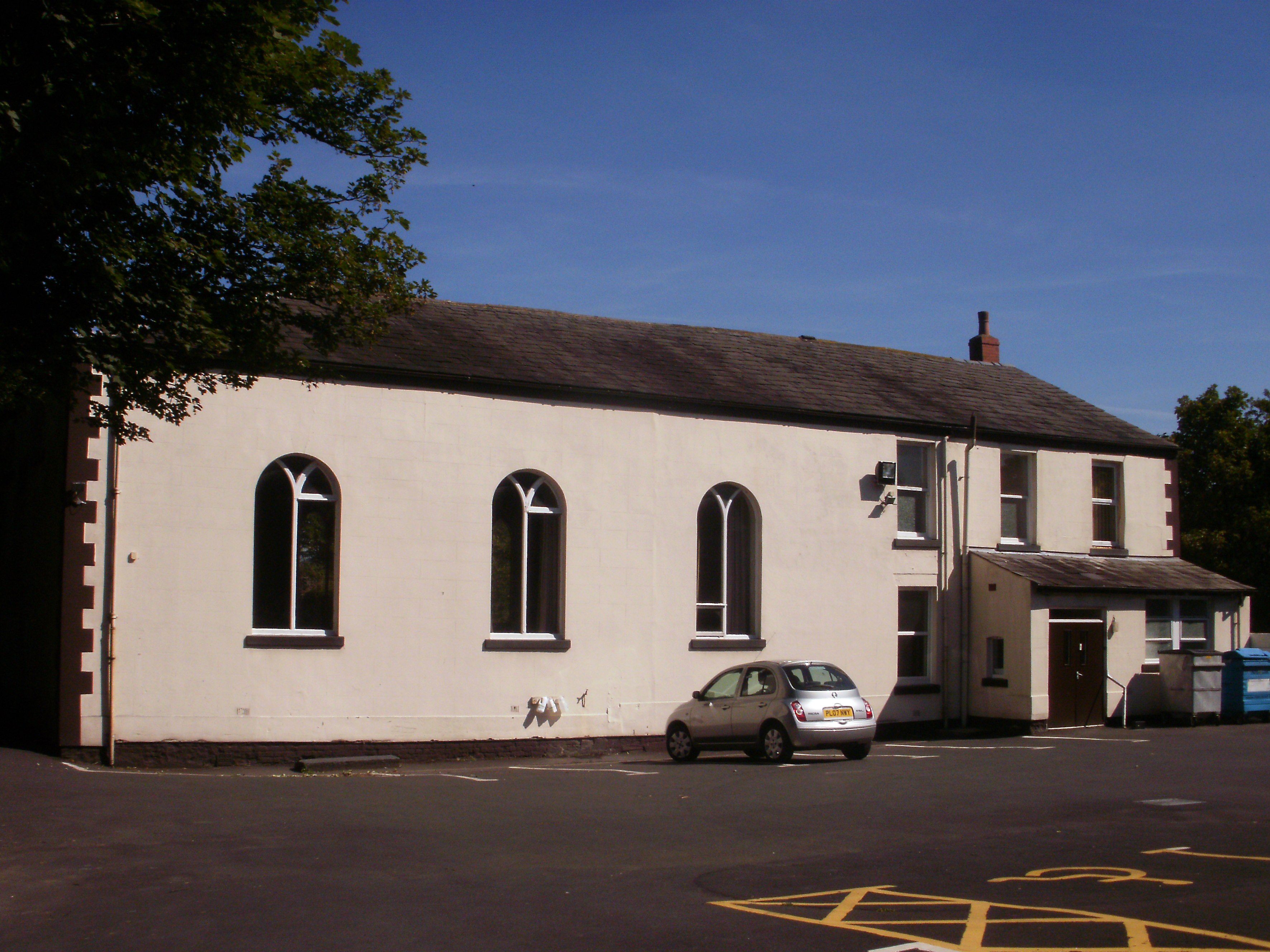 Former Roman Catholic chapel of St John the Evangelist, with attached presbytery (right), Poulton-le-Fylde, Lancashire, England, seen from the southwest